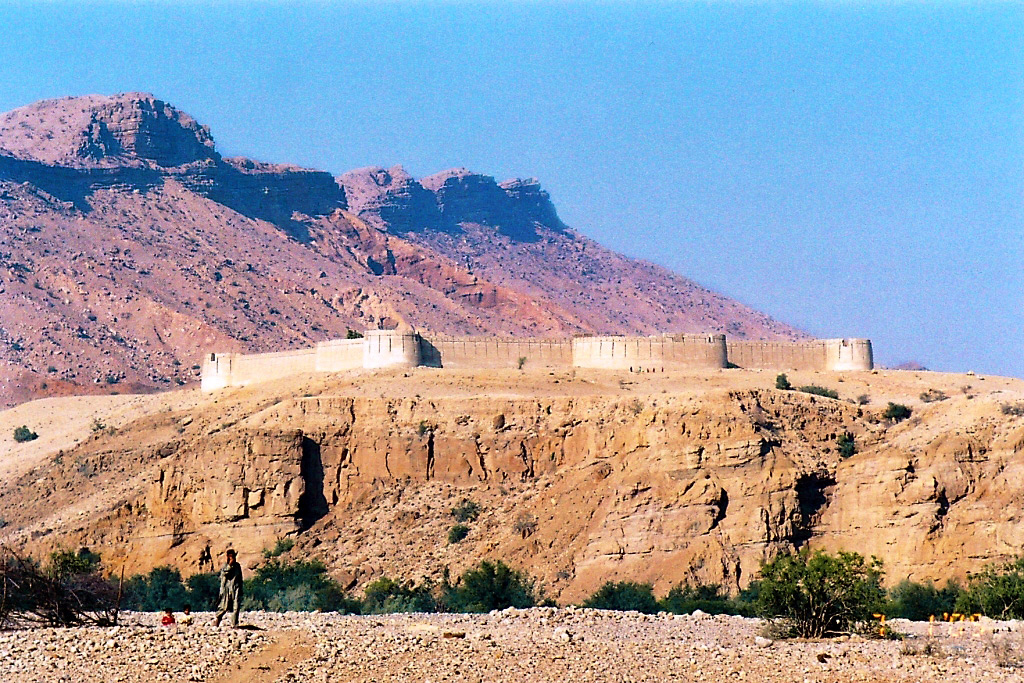 RANI KOT is a large fort in the region of the Kirthar Range, about 30 km southwest of Sann, in the Dadu district of Sindh, approximately 90 km north of Hyderabad in Pakistan.